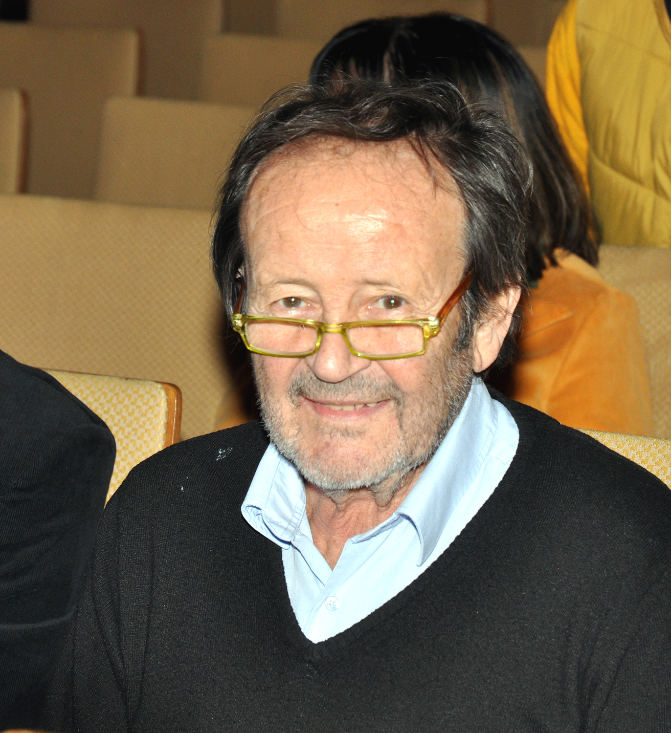 Gernot Roll at Kultureller Ehrenpreis 2015 for Werner Herzog in Munich